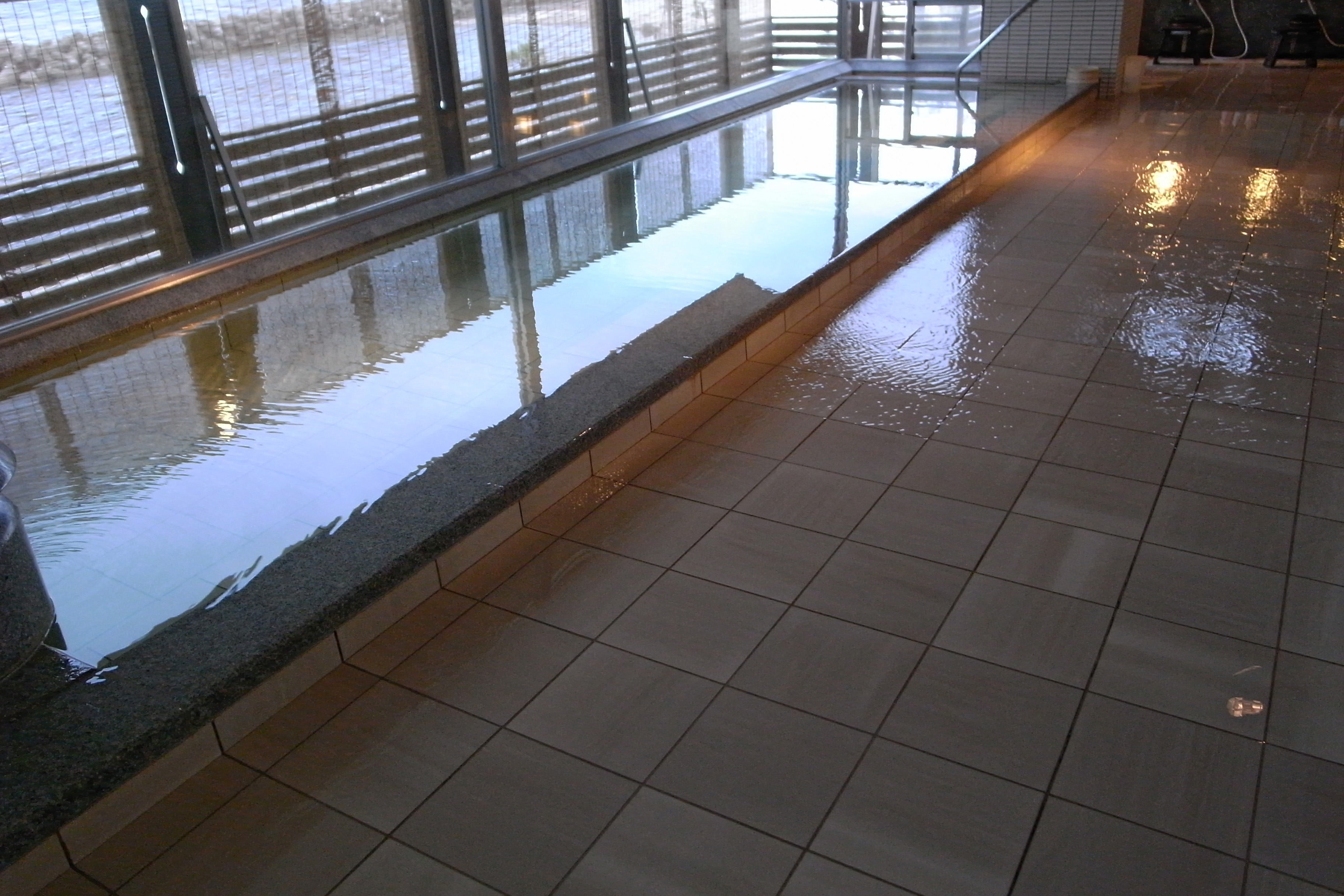 Kaike Onsen in Yonago, Tottori prefecture, Japan